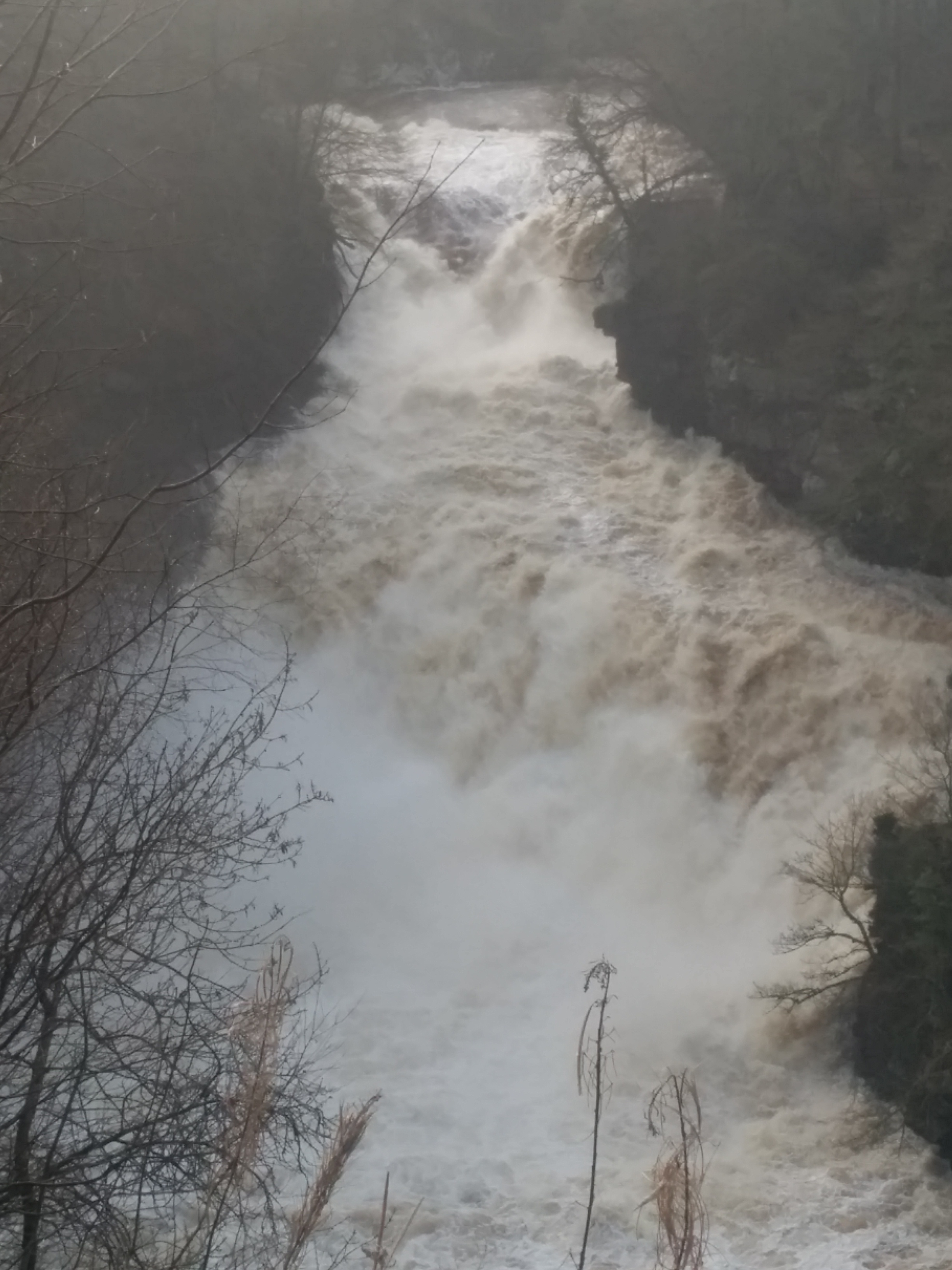 New Lanark was built by Robert Owen and it is a World Heritage Site. It was powered by the Falls of Clyde - here the water is in full spate on Corra Linn in December 2015